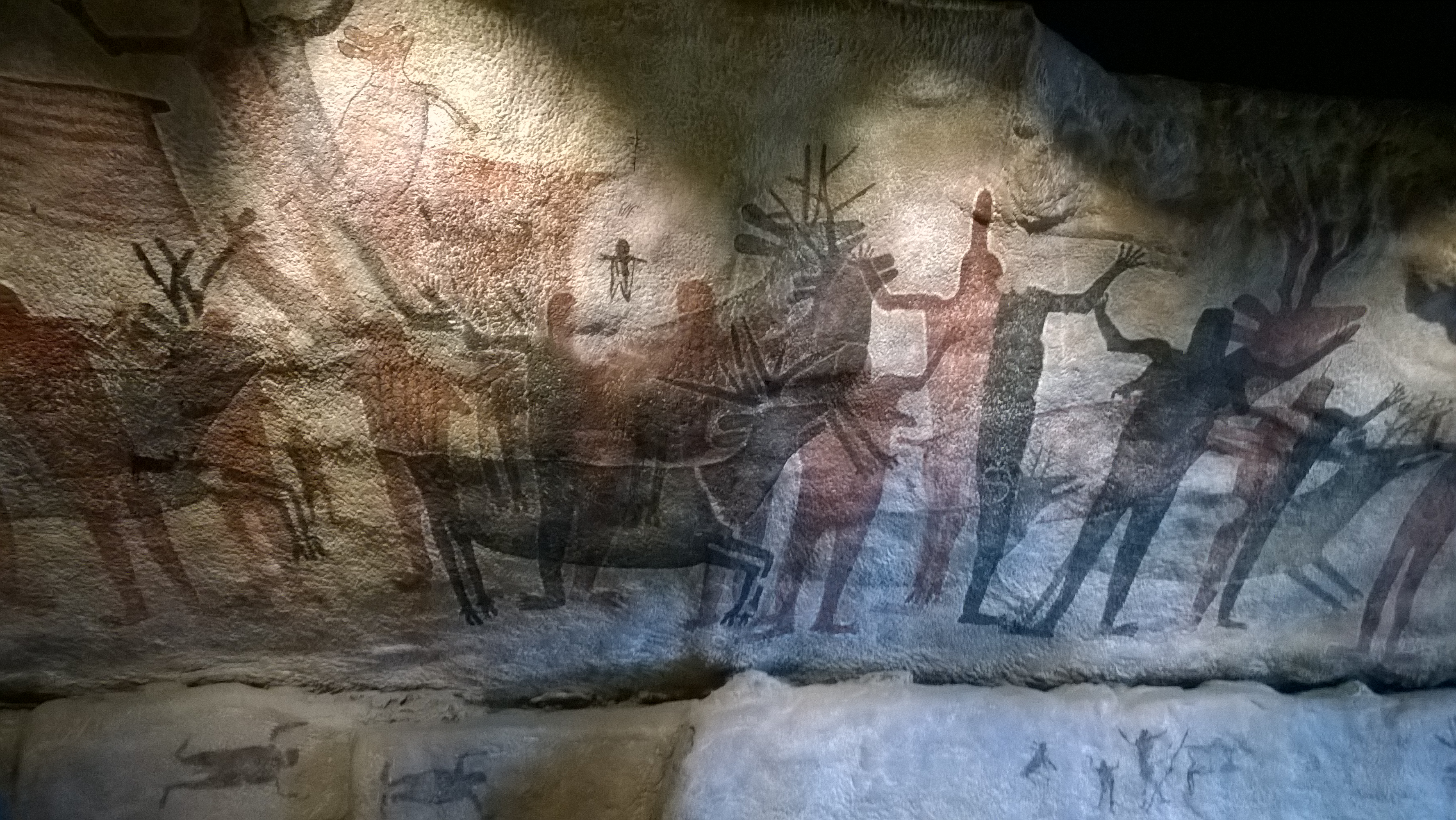 Replica of rock paintings of the Sierra de San Francisco at the Museo Nacional de Antropología